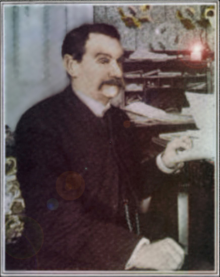 Dr. Herran Representing Colombia at Washington, and negotiator of Canal Treaty. 1903.